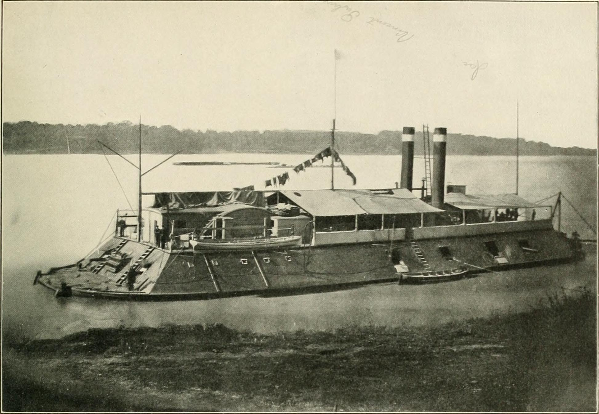 Title: The photographic history of the Civil War : thousands of scenes photographed 1861-65, with text by many special authorities Year: 1911 (1910s) Authors: Miller, Francis Trevelyan, 1877-1959 Lanier, Robert S. (Robert Sampson), 1880- Subjects: United States -- History Civil War, 1861-1865 Pictorial works United States -- History Civil War, 1861-1865 Publisher: New York : Review of Reviews Co. Text Appearing Before Image: ' Text Appearing After Image: Copyright by Review of Reviews Co. THE GUNBOAT THAT HUED THE FIRST SHOT AT FORT HENRY Here, riding at anchor, lies the flagshipof Footc, which opened the attack onFort Henry in the first movement tobreak the backbone of the Confederacy,and won a victory before the arrivalof the army. This gunboat, the Cincinnati,was one of the seven flat-bottom iron-clads built by Captain Eads at Carondelet.Missouri, and Mound City, Illinois, duringthe latter half of 1861. When Grant finallyobtained permission from General Halleckto advance the attack upon Fort Henryon the Tennessee River, near the border ofKentucky, Flag Officer Foote .started upthe river, February 2, 1862, convoying thetransports, loaded with the advance de-tachment of Grants seventeen thousandtroops. Arriving before Fort Henry on